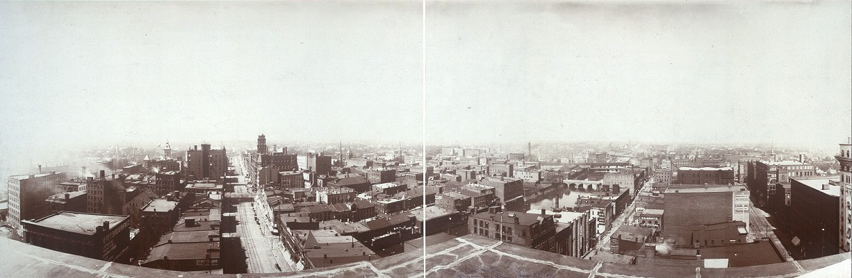 Panorama of Rochester, New York, taken circa 1896 by William H. Rau.